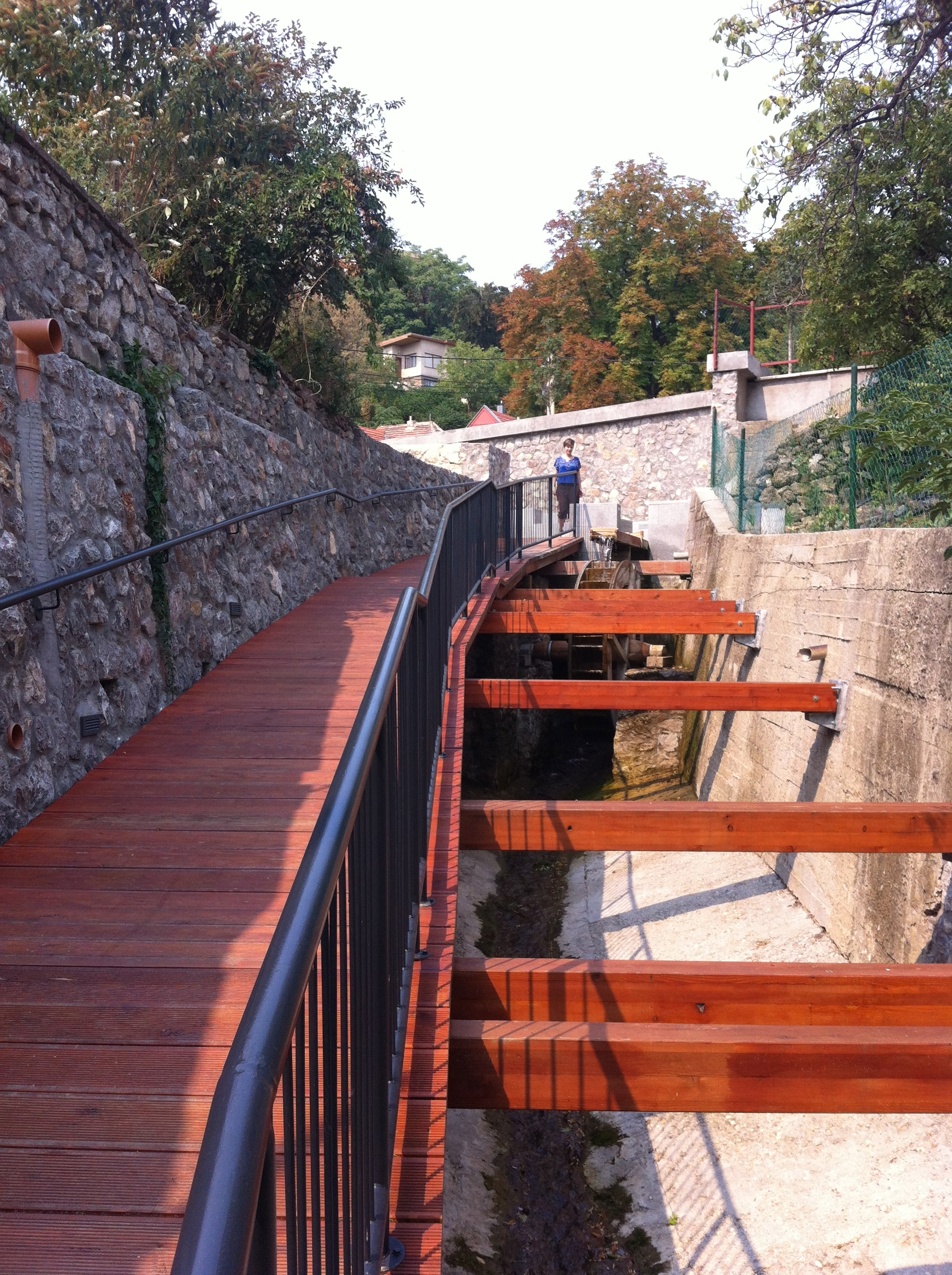 Tettye patak és malomkerék